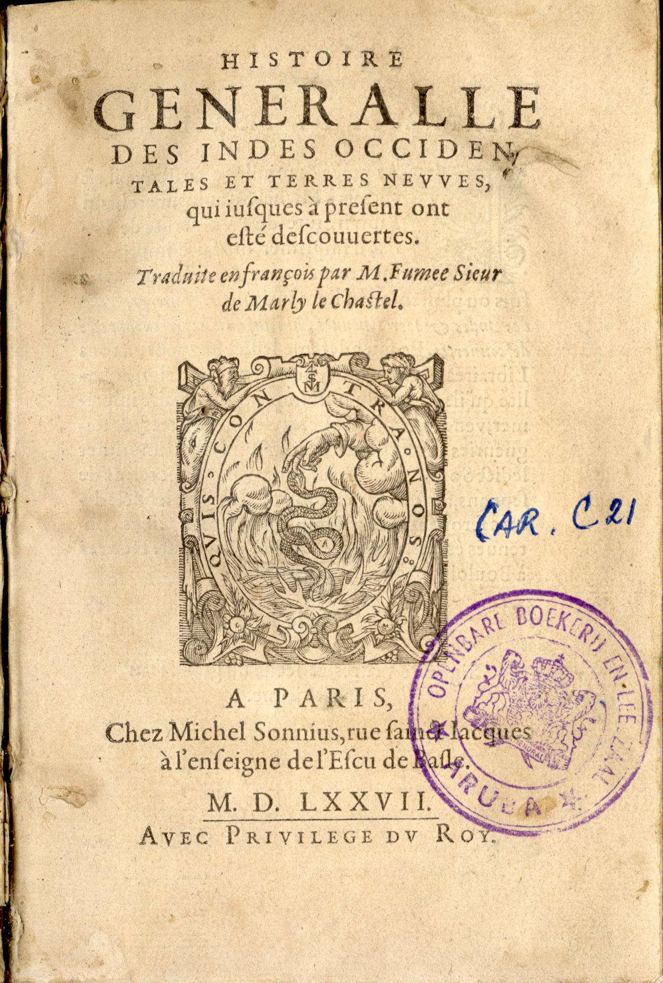 Title page of the 1577 translation by Martin Fumee of Francisco López de Gómara Historia de las Indias into French